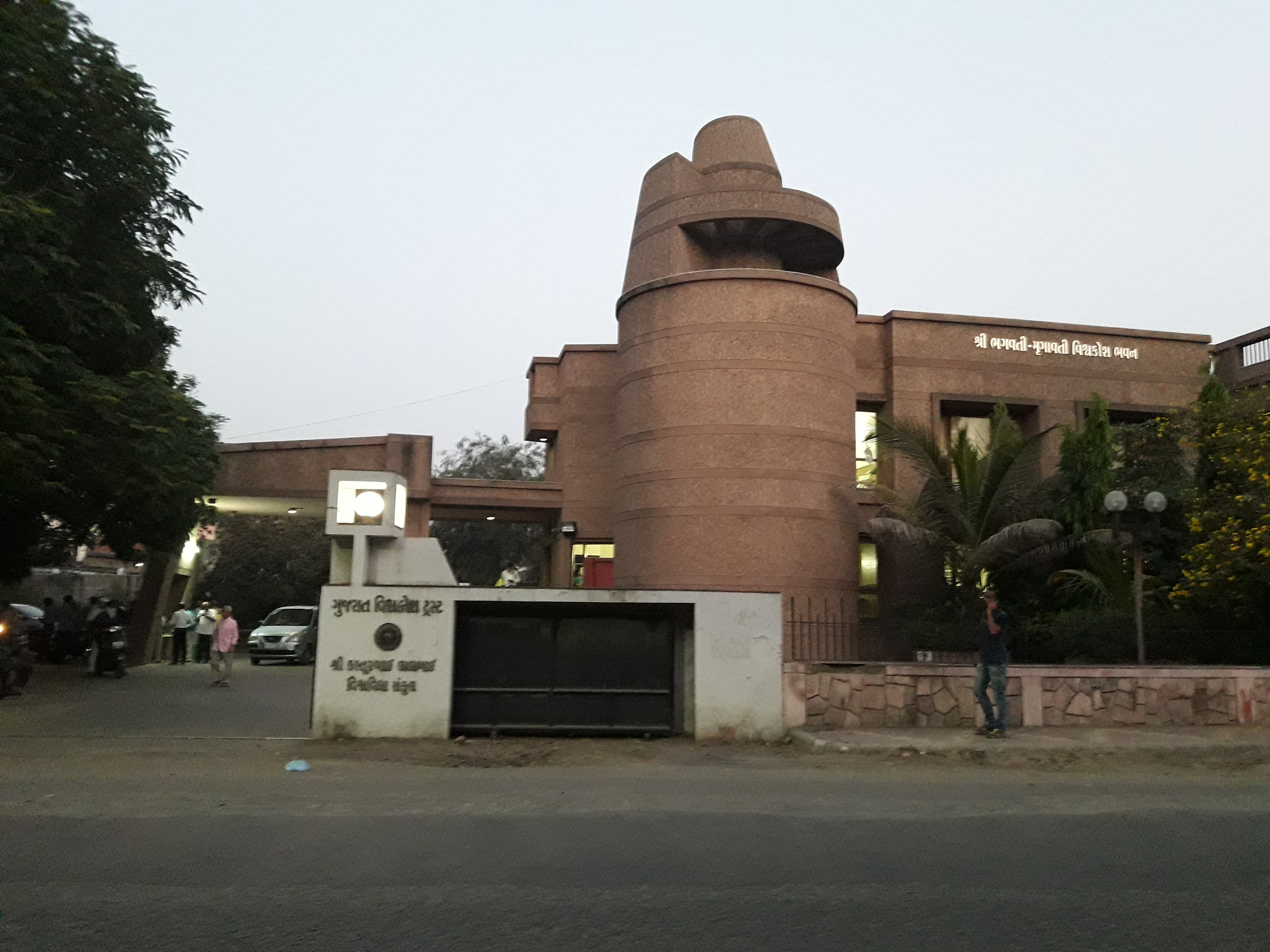 Building of Gujarati Vishwakosh Trust located at Usmanpura, Ahmedabad, Gujarat.